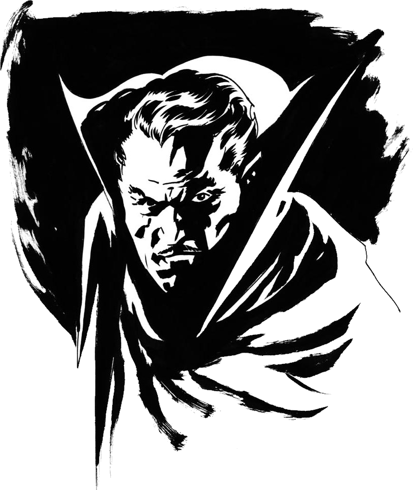 A PNG version of public domaine image File:Dracula vampire.jpg to enable a transparent background